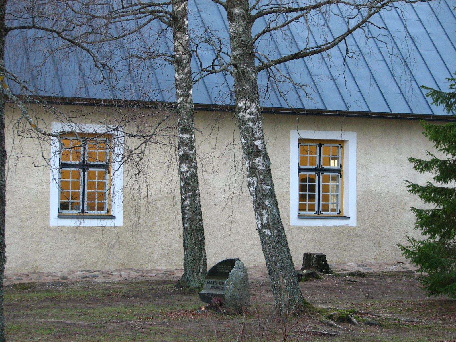 Mats Ekman's memorial, Rooslepa cemetery